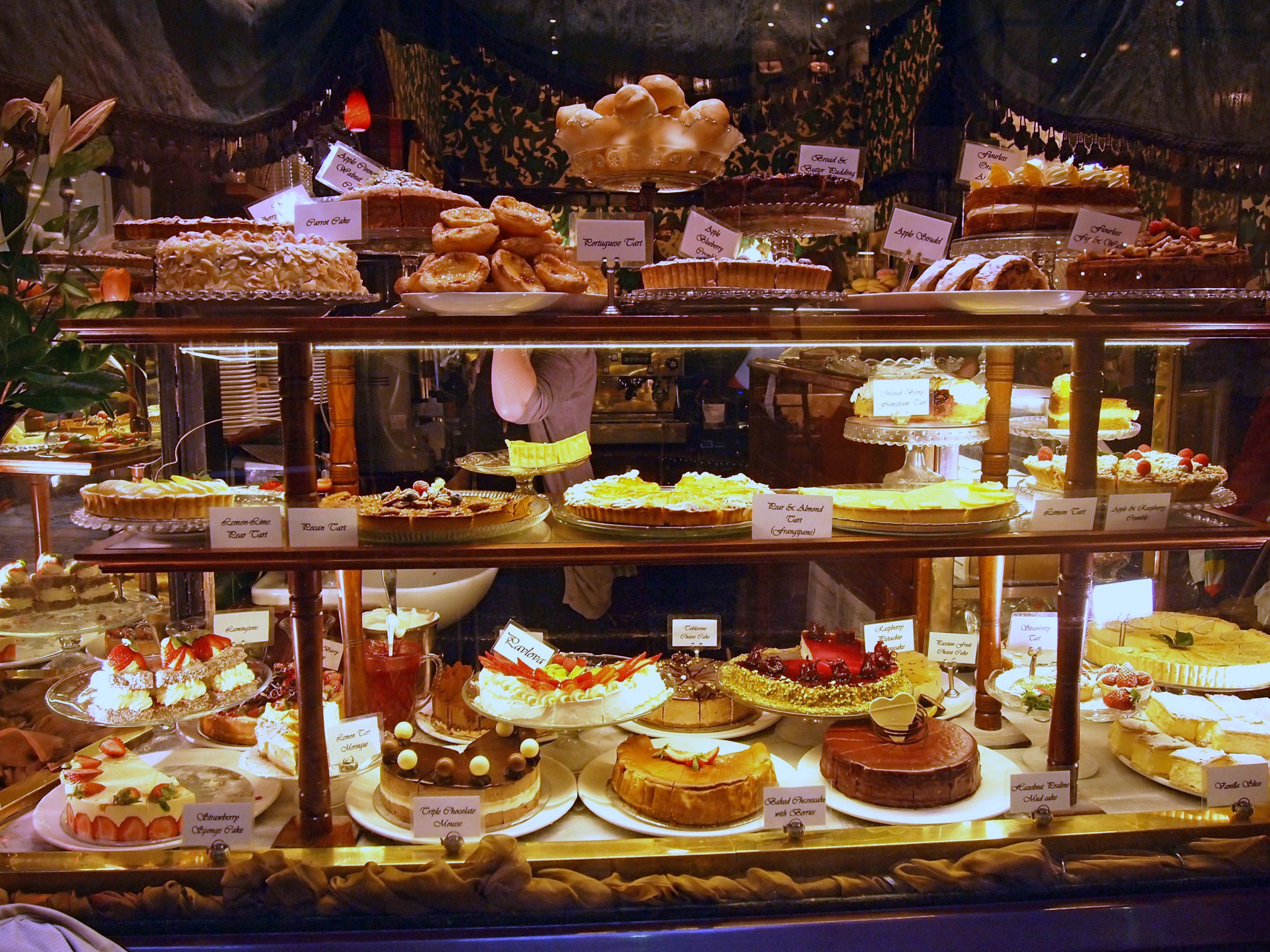 Tea rooms store front in Collins Street, Melbourne